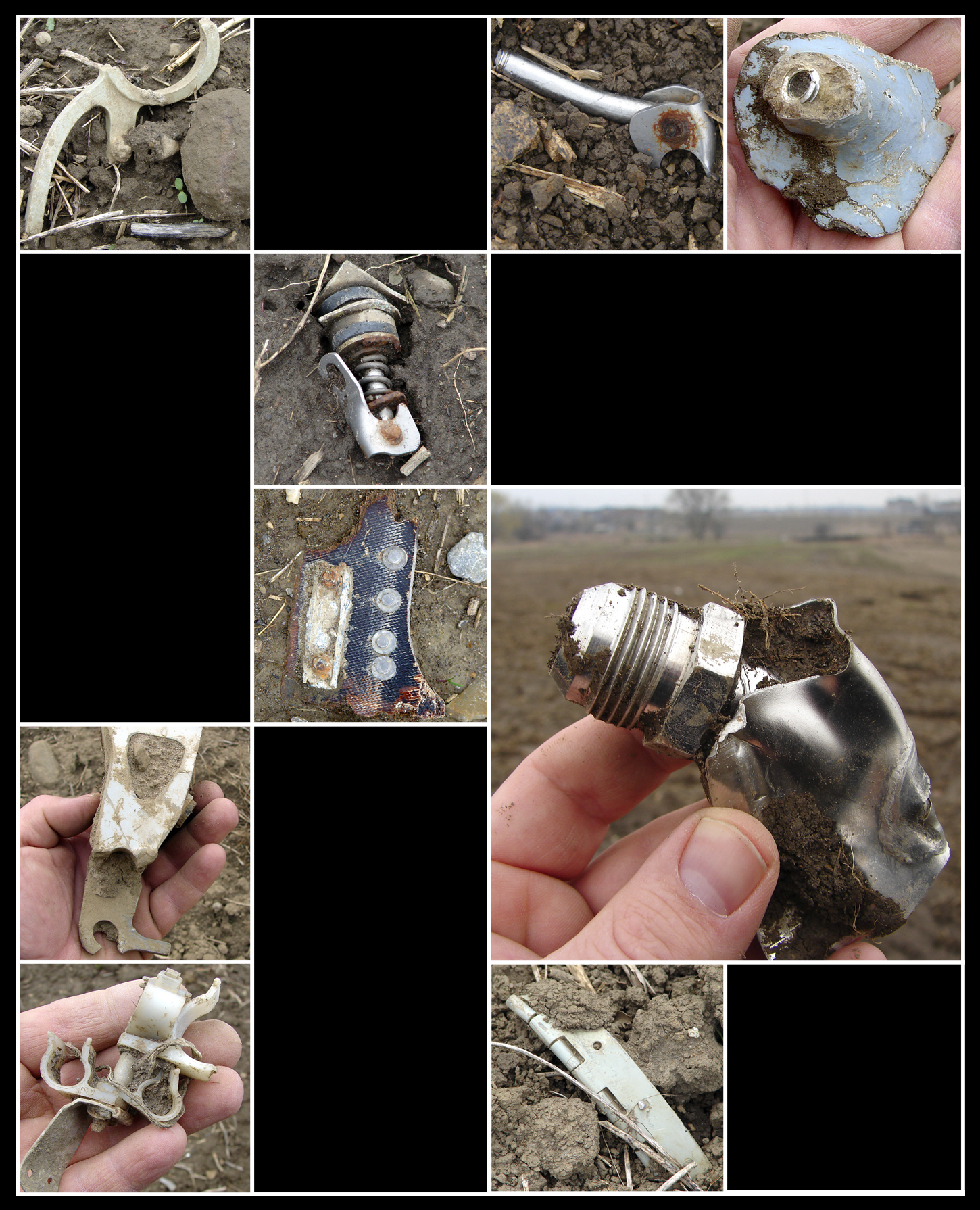 DC-8 wreckage - AIR CANADA Flight 621